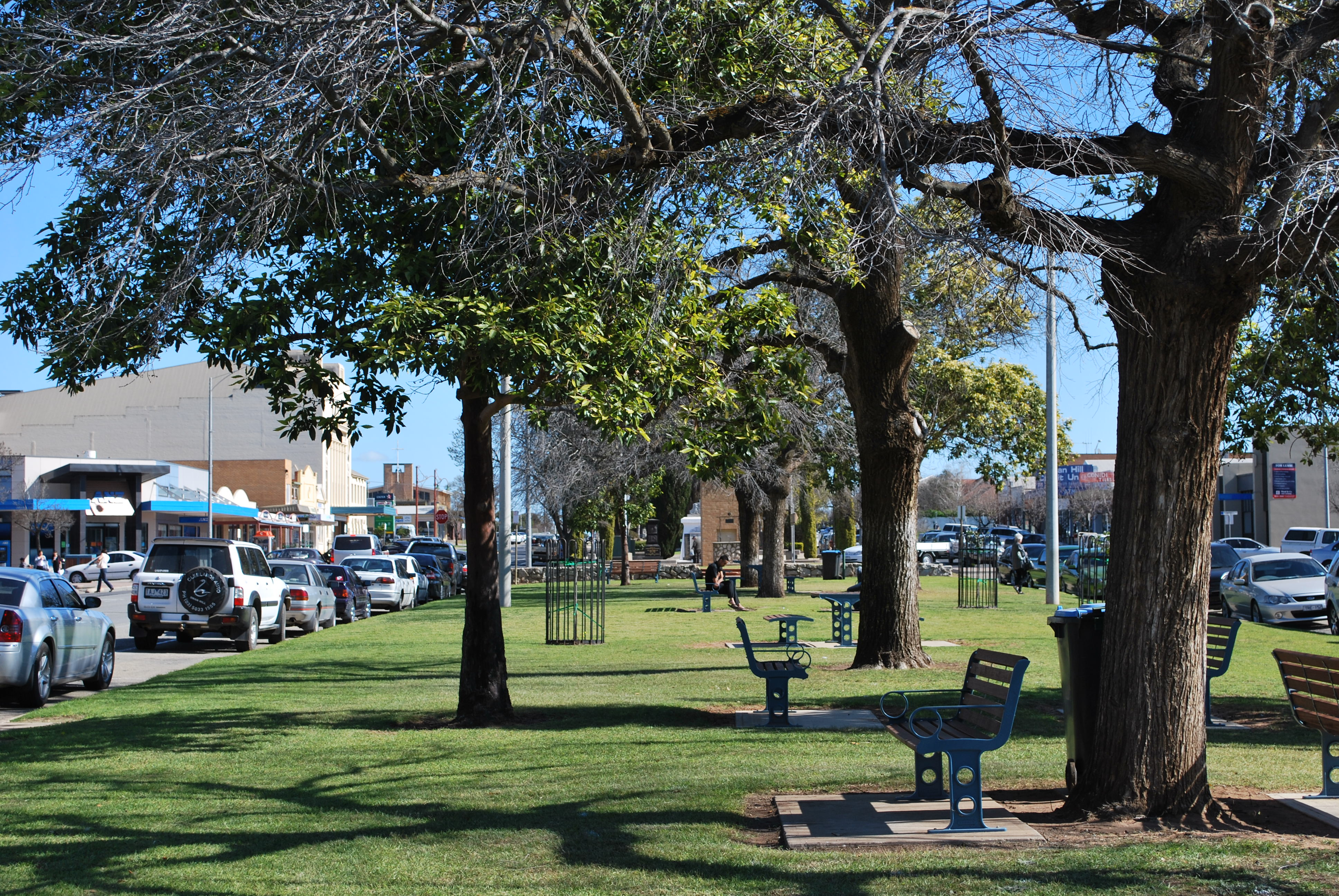 A park in Swan Hill, Victoria